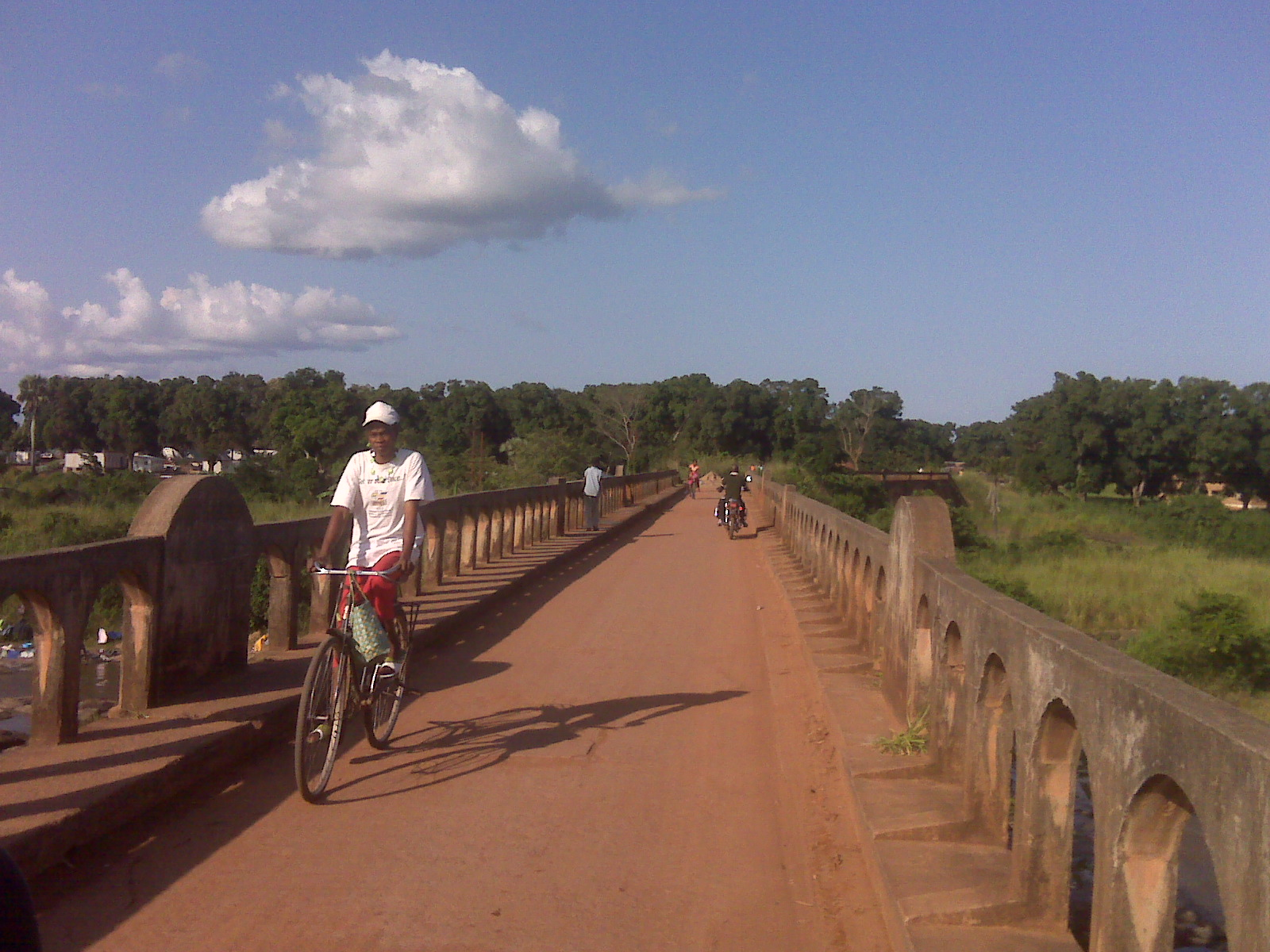 The bridge in Dungu, RDC In the village, the missionaries will tell you that the reason why this bridge has only one lane is because the Belgium colonial administrator kept half of the construction material to build a nearby castle for himself (see picture of the castle)